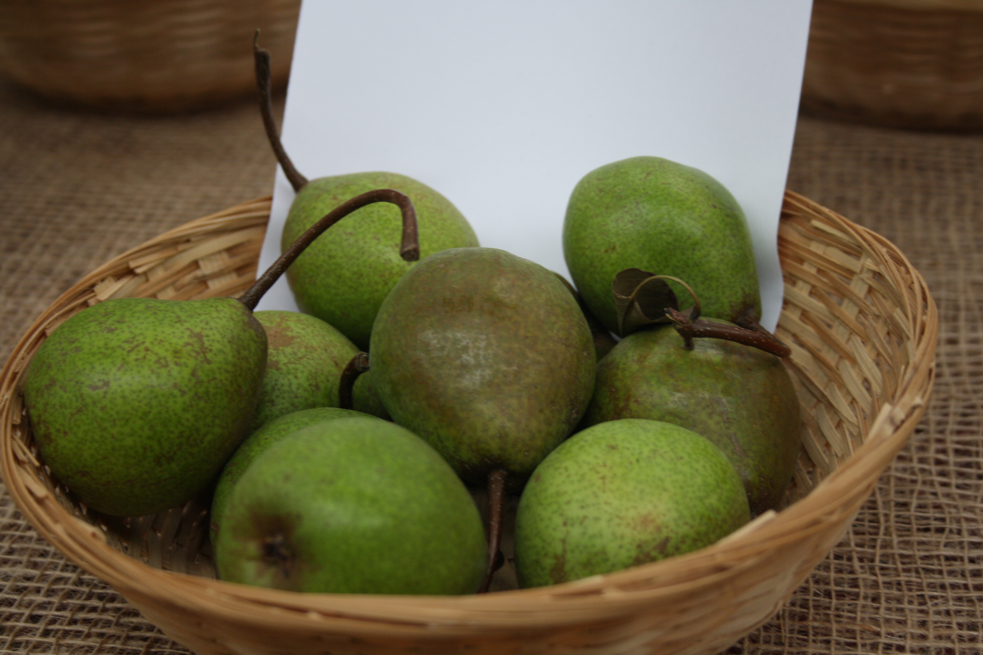 Pears